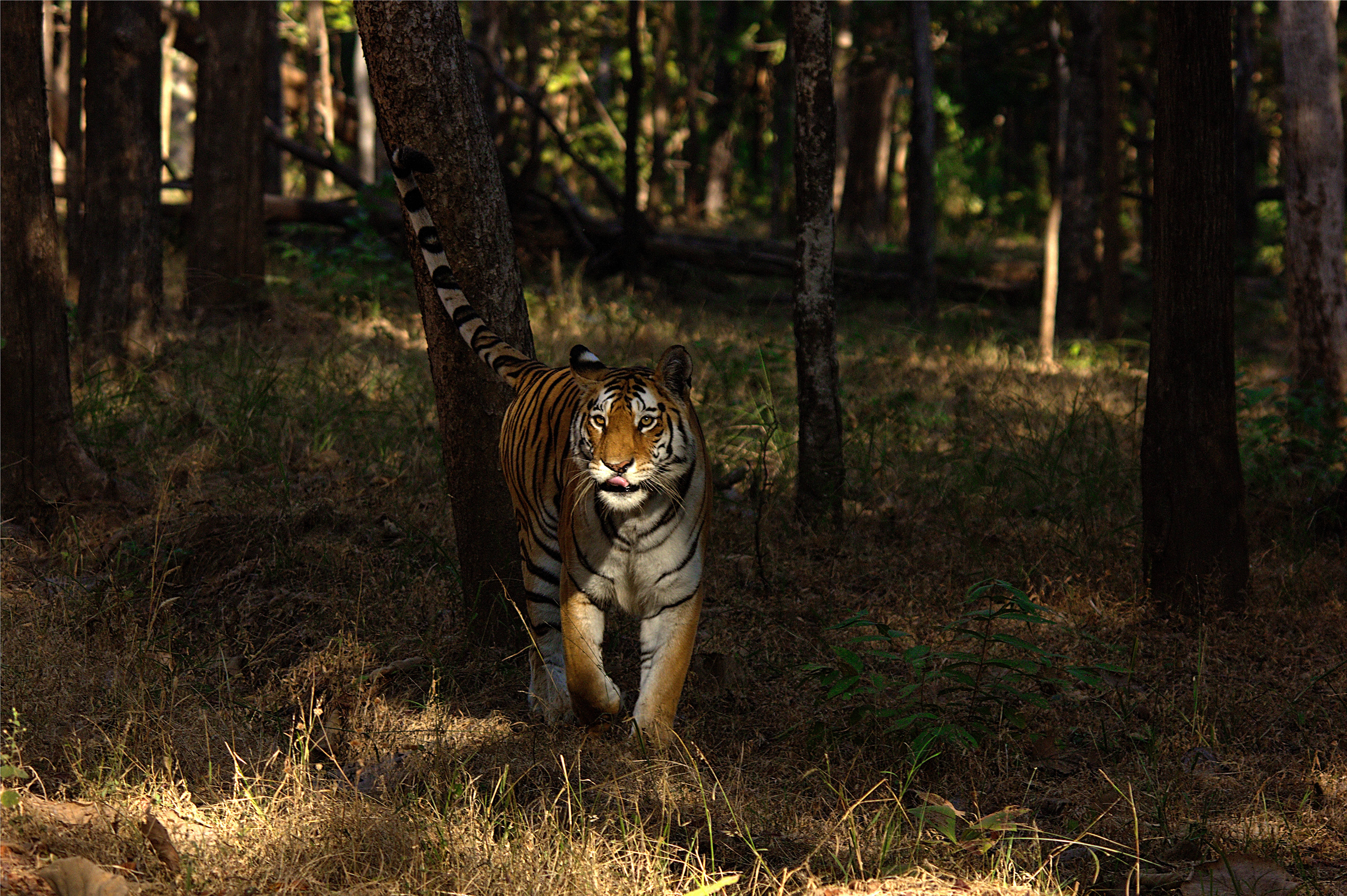 Collarwali today is the most famous tigress in Pench Tiger Reserve in India. As of 2017, Collarwali has given birth to 26 cubs in 7 litters, a record for a wild tiger anywhere in the world. This photograph was clicked 3rd December 2012 while on a morning game drive into the Pench Tiger Reserve